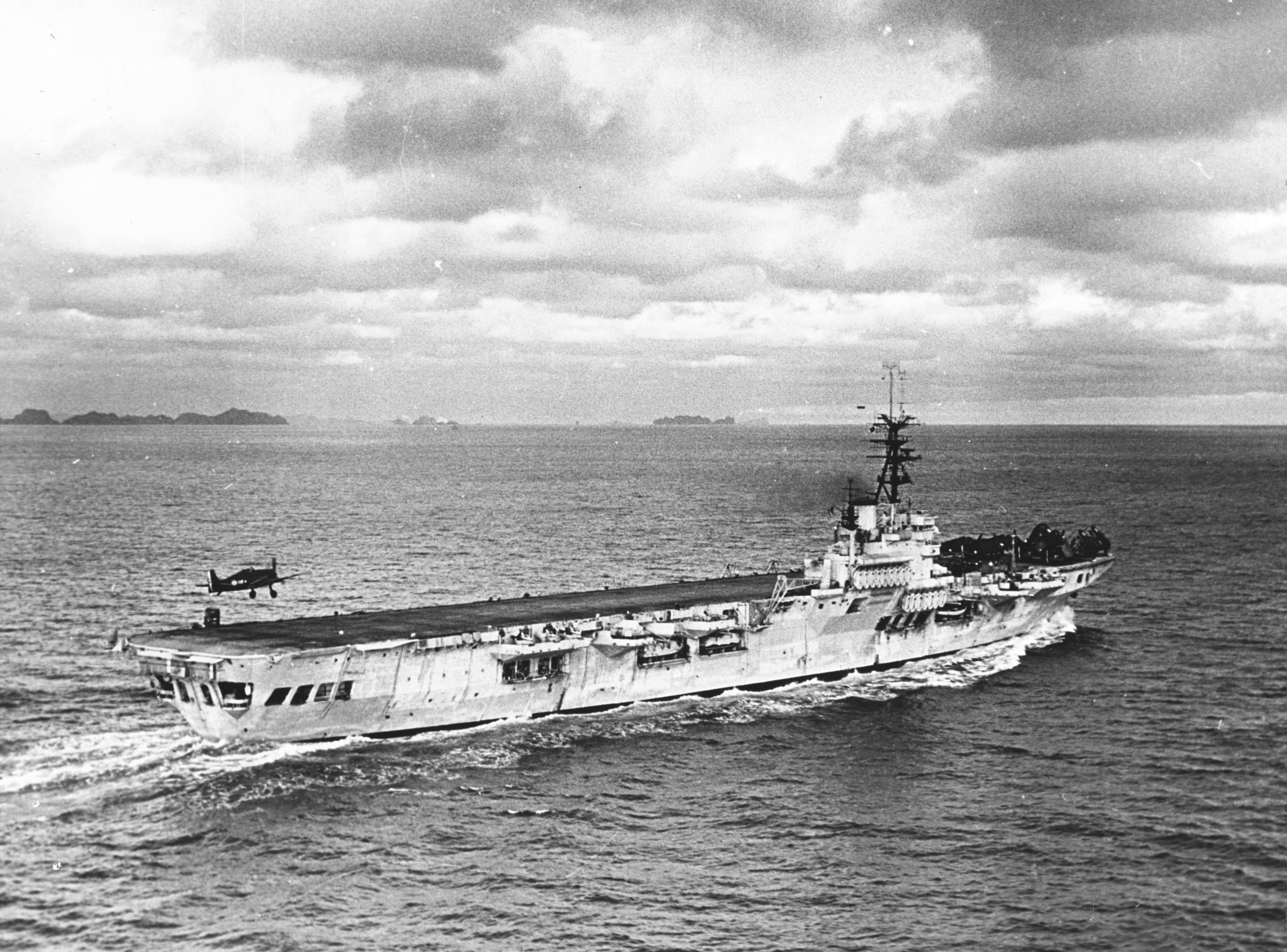 A Grumman F6F-5 Hellcat from Escadrille 1F prepares to land on the French carrier Arromanches (R95) operating in the Gulf of Tonkin.